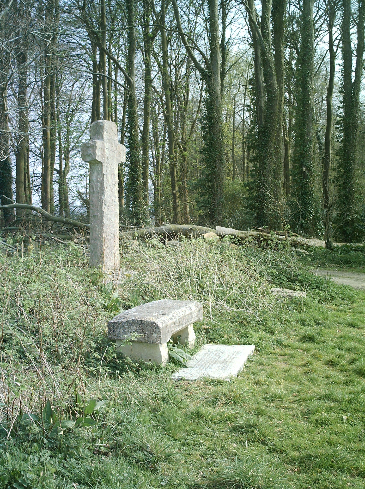 Author: Nigel Johns, Picture of Stratton Dorset. Jackman's Cross. April 2007